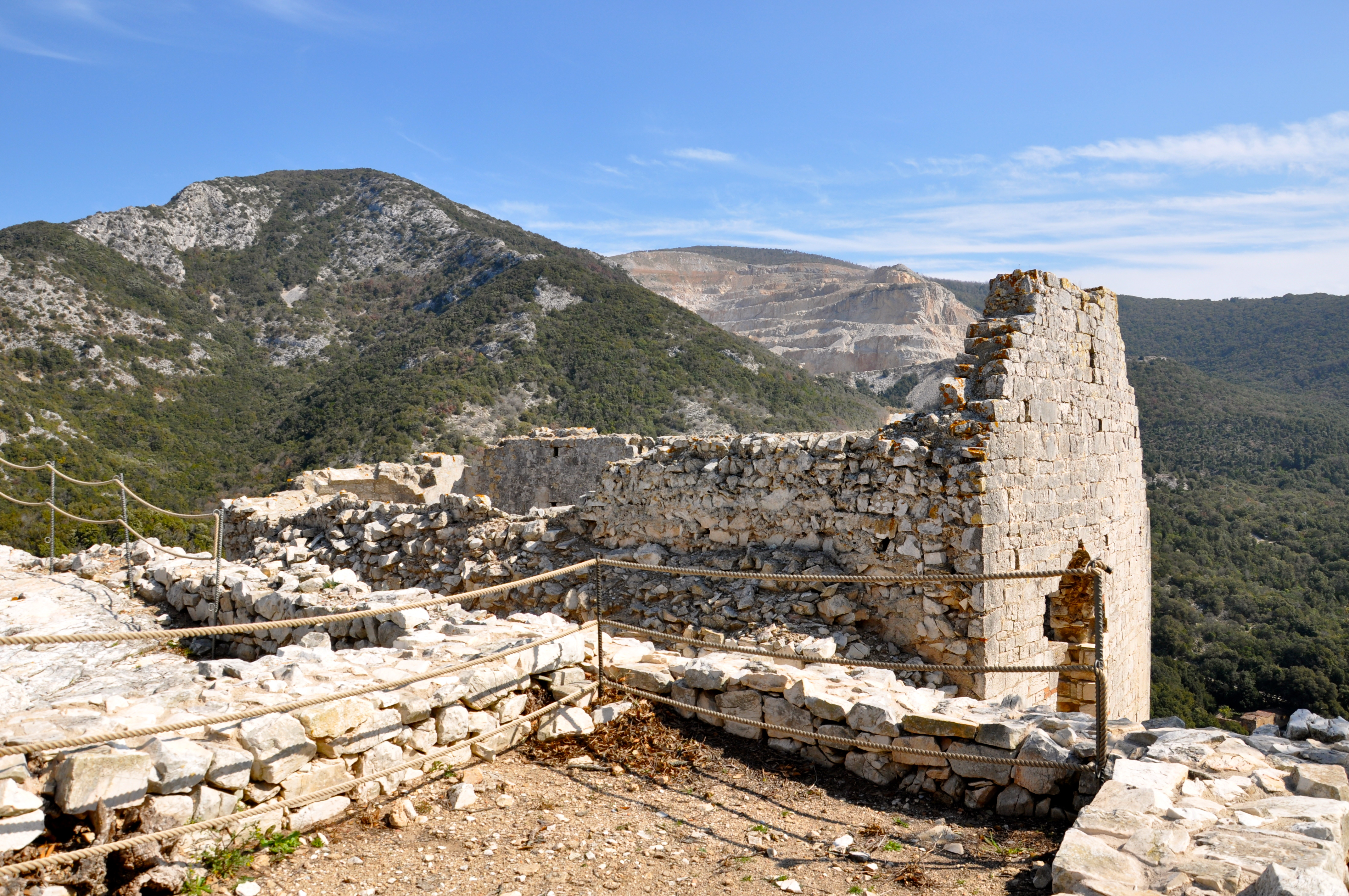 The church of Rocca San Silvestro